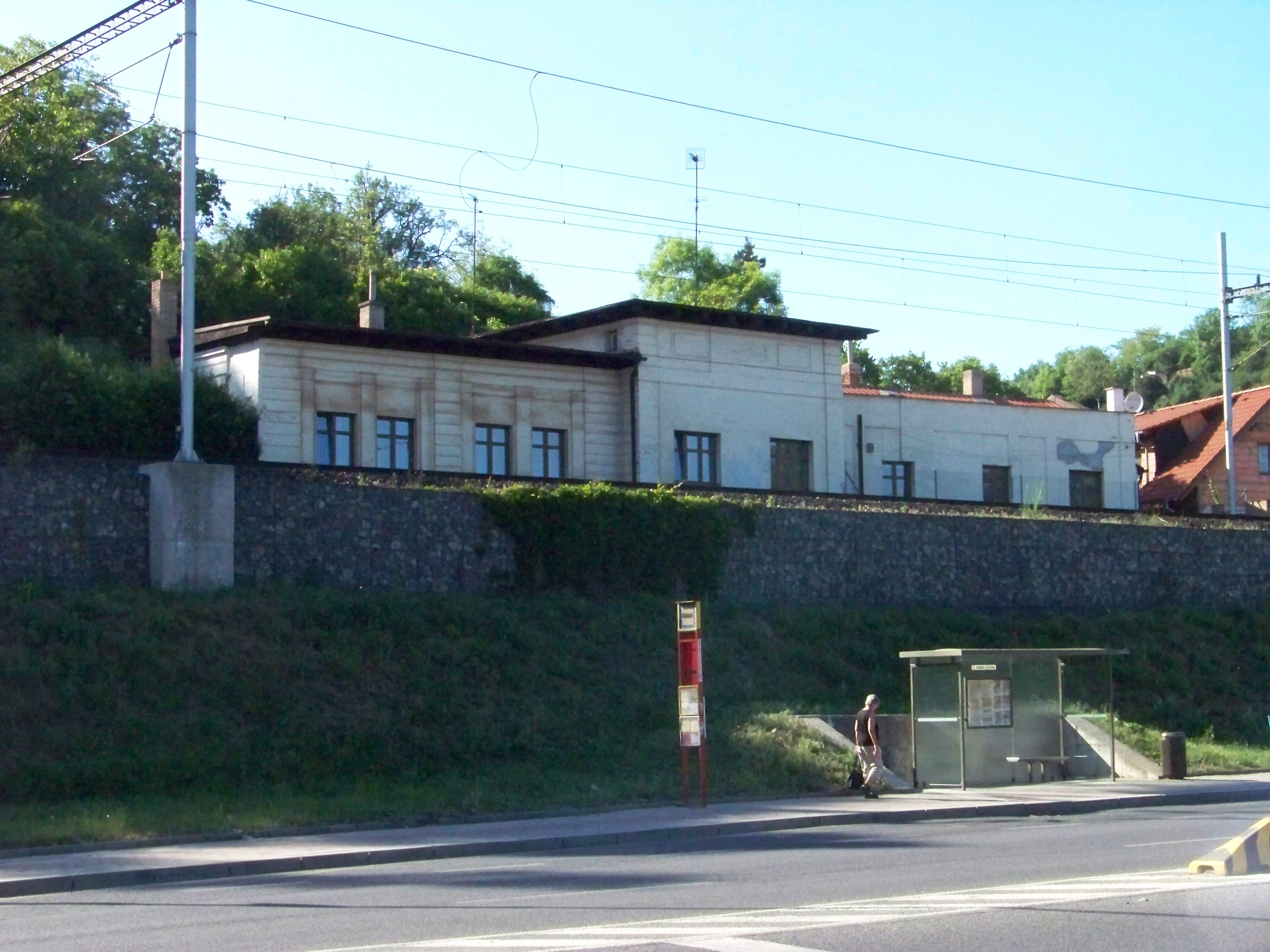 Prague-Dejvice, the Czech Republic. The former train stop "Podbaba" ("Praha-Podbaba"), seen from Podbabská street.